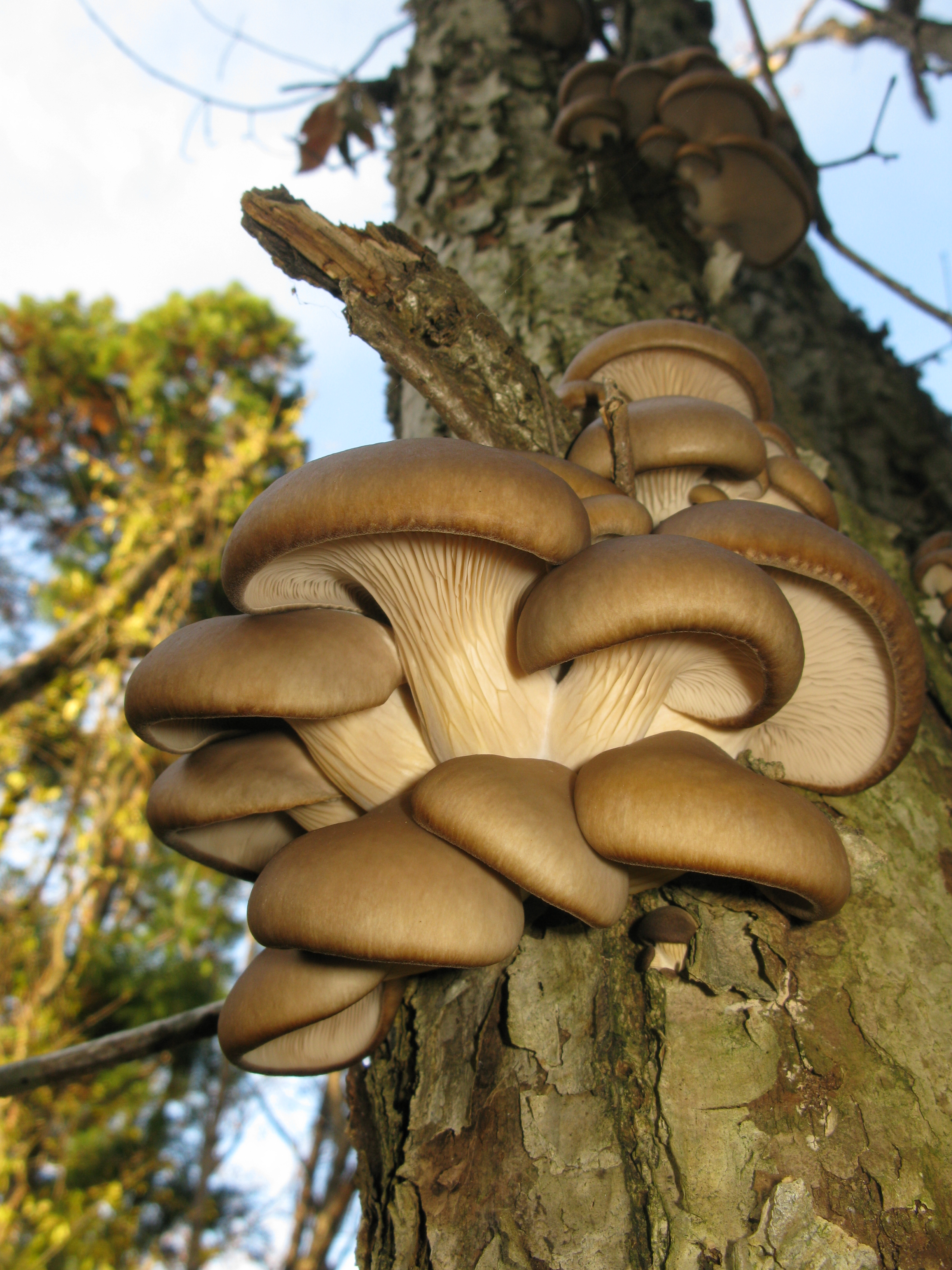 Pleurotus ostreatus, Aizu area, Fukushima pref., Japan